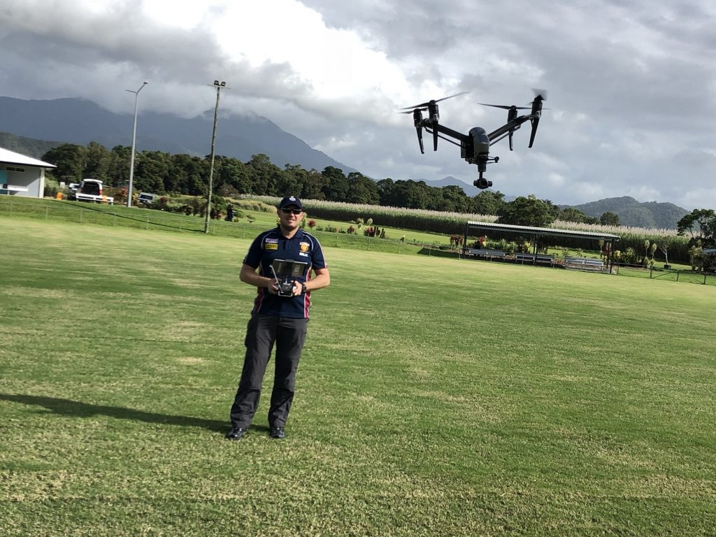 Queensland Police Service drone, Remotely Piloted Aircraft Systems (RPAS), 2018